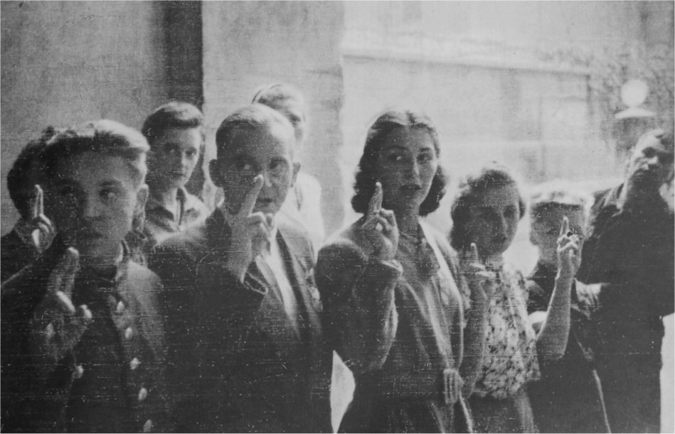 WarsawUprising: Volunteer give oath in Powiśle district.